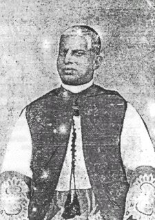 This is an image of the Indian Roman Catholic priest, Sebastião Rodolfo Dalgado.